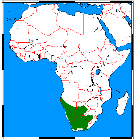 Range map for Meerkat (Suricata suricatta), made by me with help of Map depending on the range map at IUCN red list.